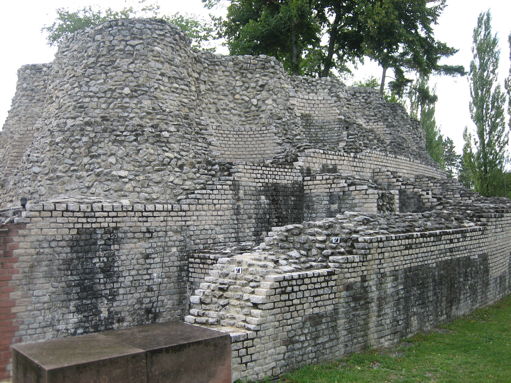 Outside wall of the Roman Thater in "Augusta Raurica" near Augst (Switzerland)